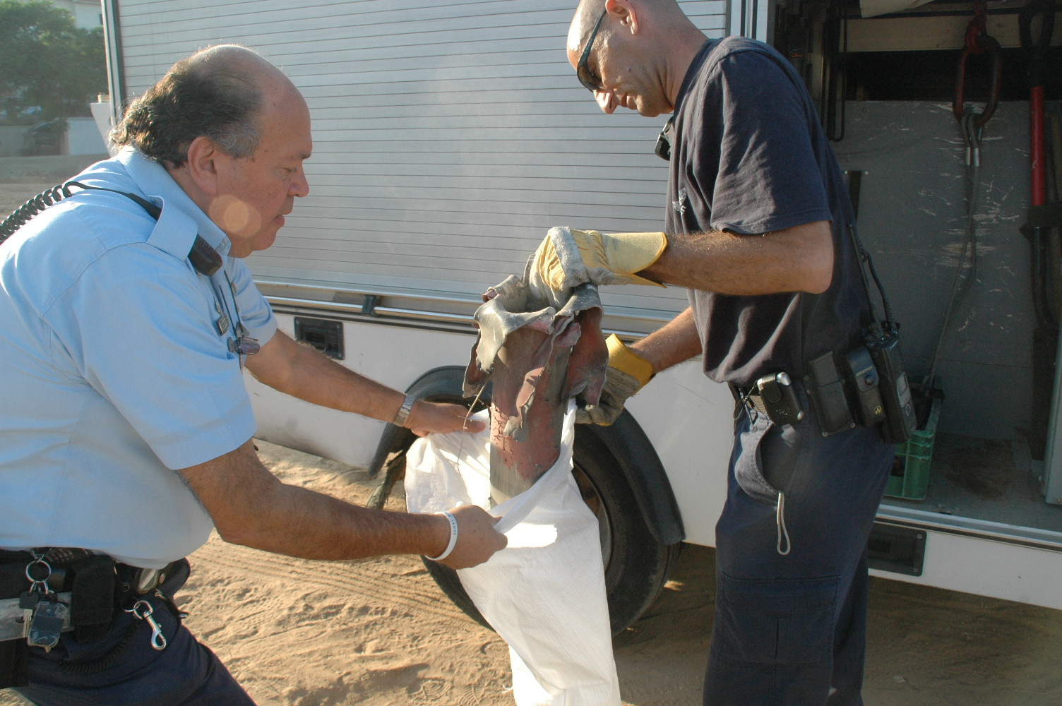 Two police man putting a Kassam rocket inside a bag, moments after landing and moments before moving it to the Kassam museum